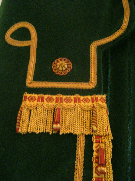 Fringe and galloon trim in the Vermont Senate Chamber at the Vermont State House. August 2007.